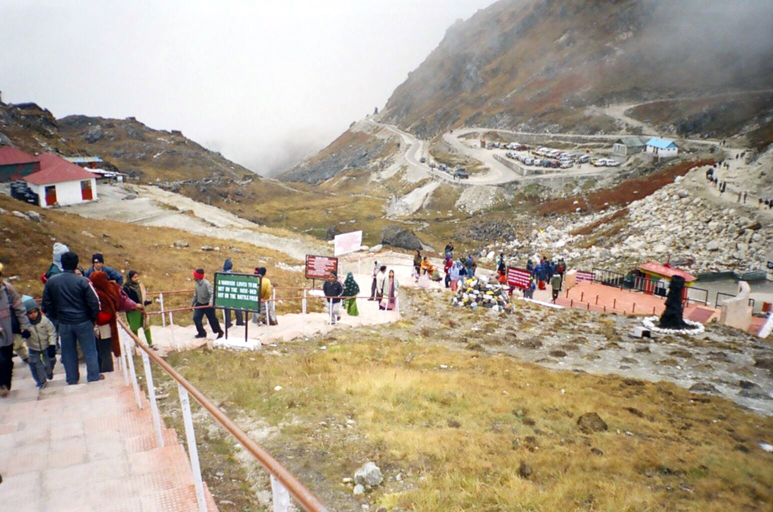 Stairs leading to Nathu Post from Indian side